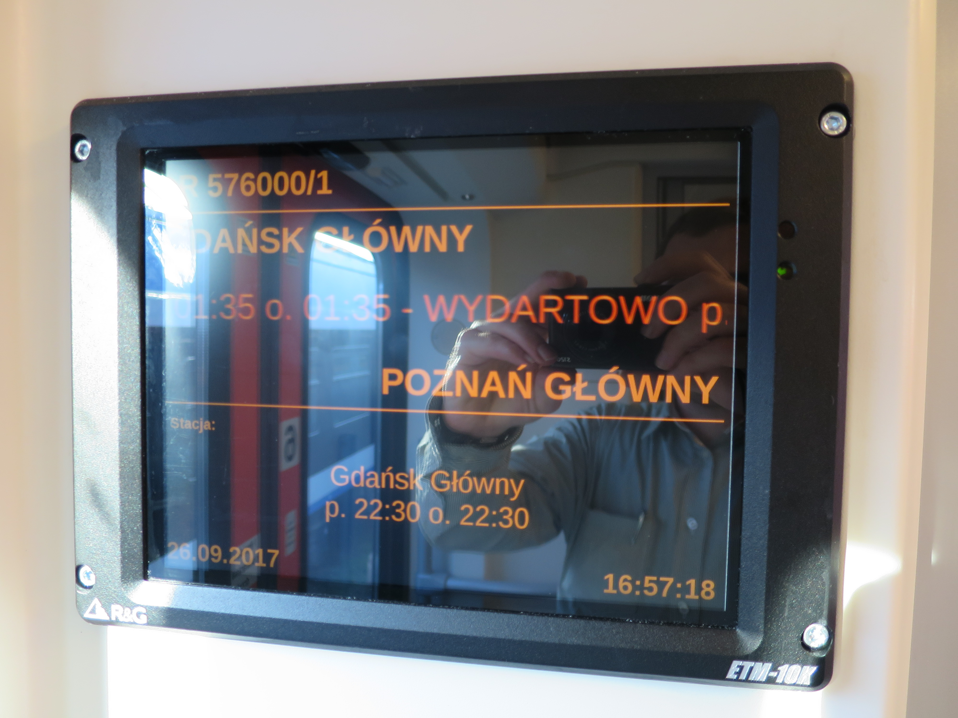 The making of this document was supported by Wikimedia Polska Association, within Wikigrant no. WG 2017-44. EN57FPS